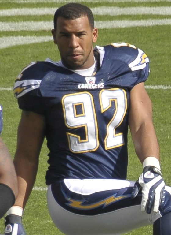 San Diego Chargers linebacker Marques Harris stretching prior to the game against the Kansas City Chiefs on November 9, 2008